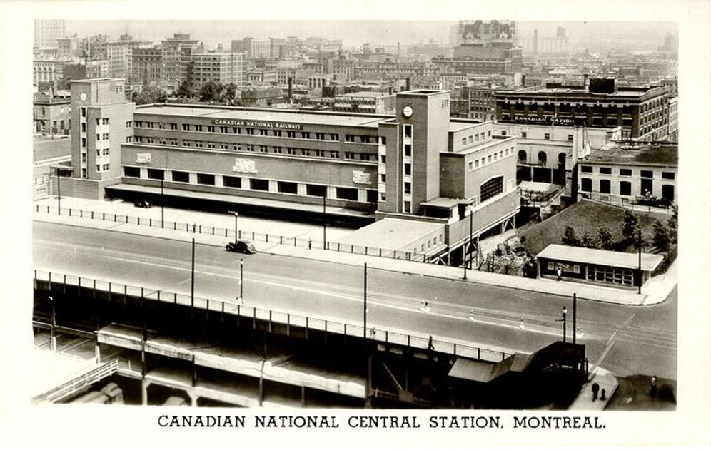 Postcard of Canadian National Railway's Central Station in Montreal, Quebec, Canada. The postcard is undated, but the slogan on the verso promoting the sale of war bonds suggests that the card was printed around the time of the station's opening in 1943.